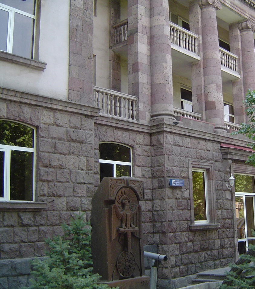 A small monument honoring Armenian fighter Monte Melkonian in Yerevan, Armenia.